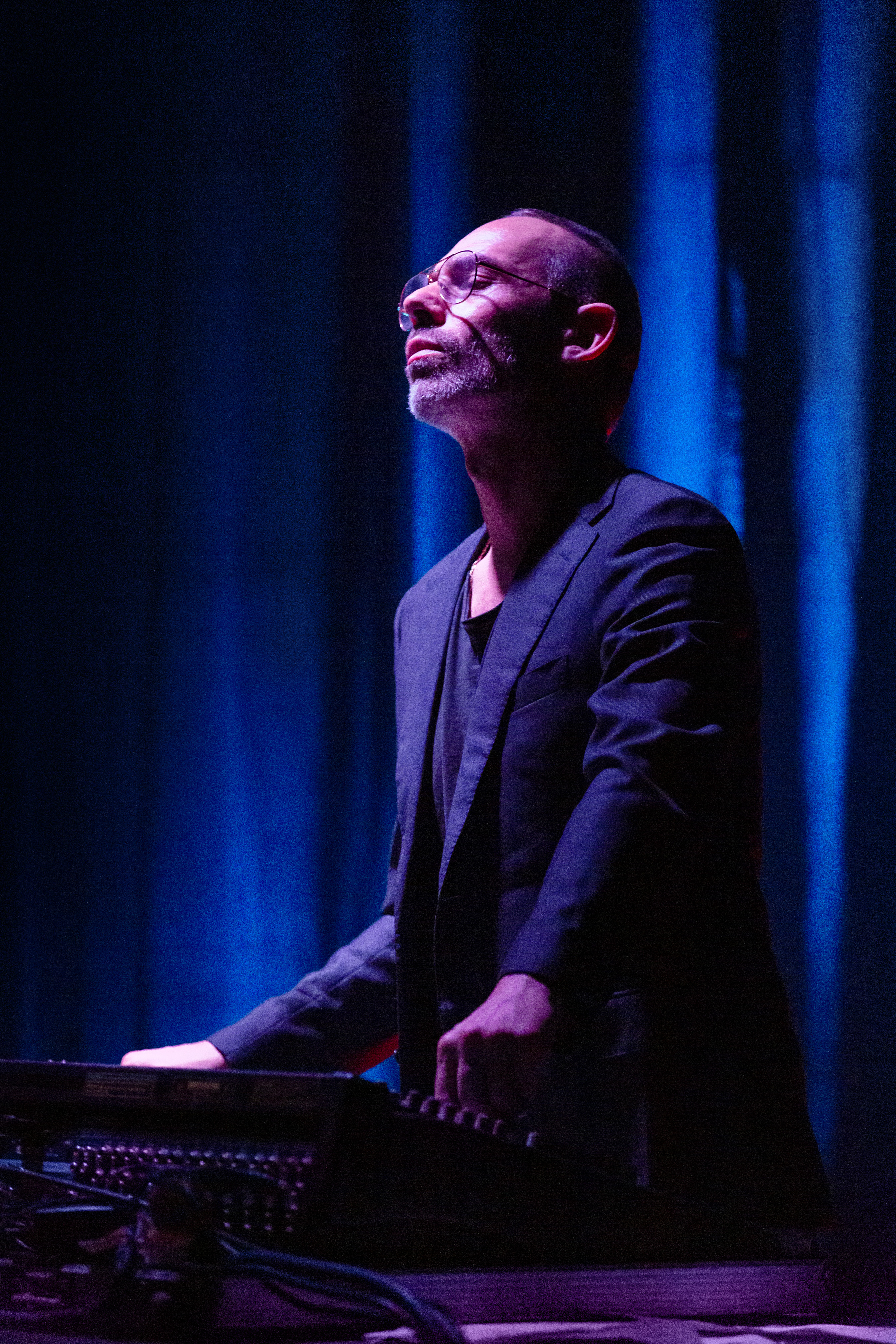 The Slow Club – Epilog, in memoriam Hansi Lang. A concert program with music by Lang and The Slow Club performed by: Thomas Rabitsch (keys, arr), Wolfgang Schlögl (el) and Andy Bartosh (git) with Madita, Birgit Denk, Tini Kainrath, Johannes Krisch and Roman Gregory (voc); Rabenhof Theater in Vienna, Austria.